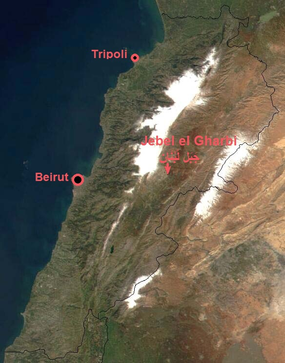 Satellite image of Lebanon in March 2002.